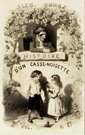 Title page of The Tale of the Nutcracker by A Dumas 1845